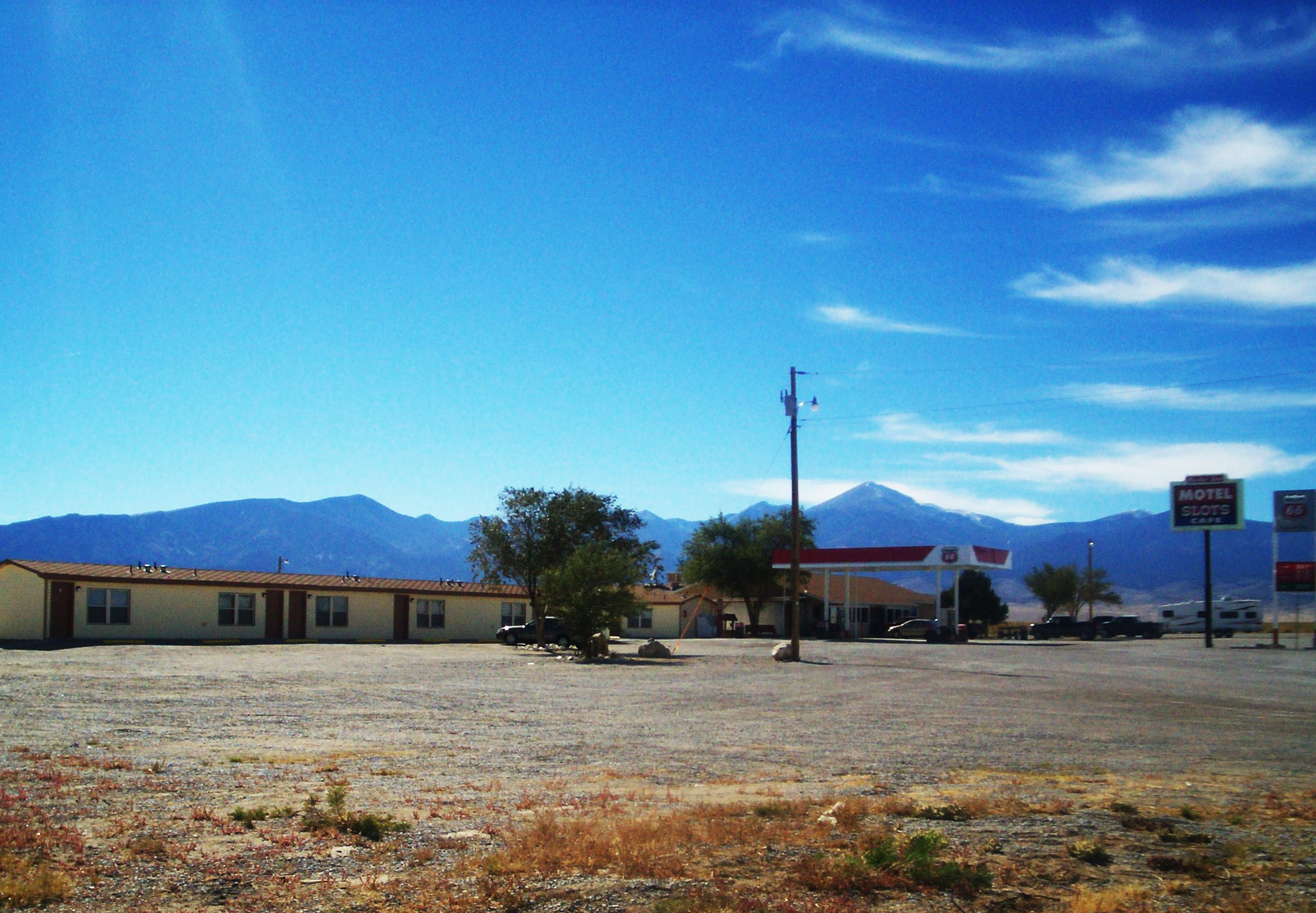 Border Inn on the Utah and Nevada state line October 2007 by David Jolley.